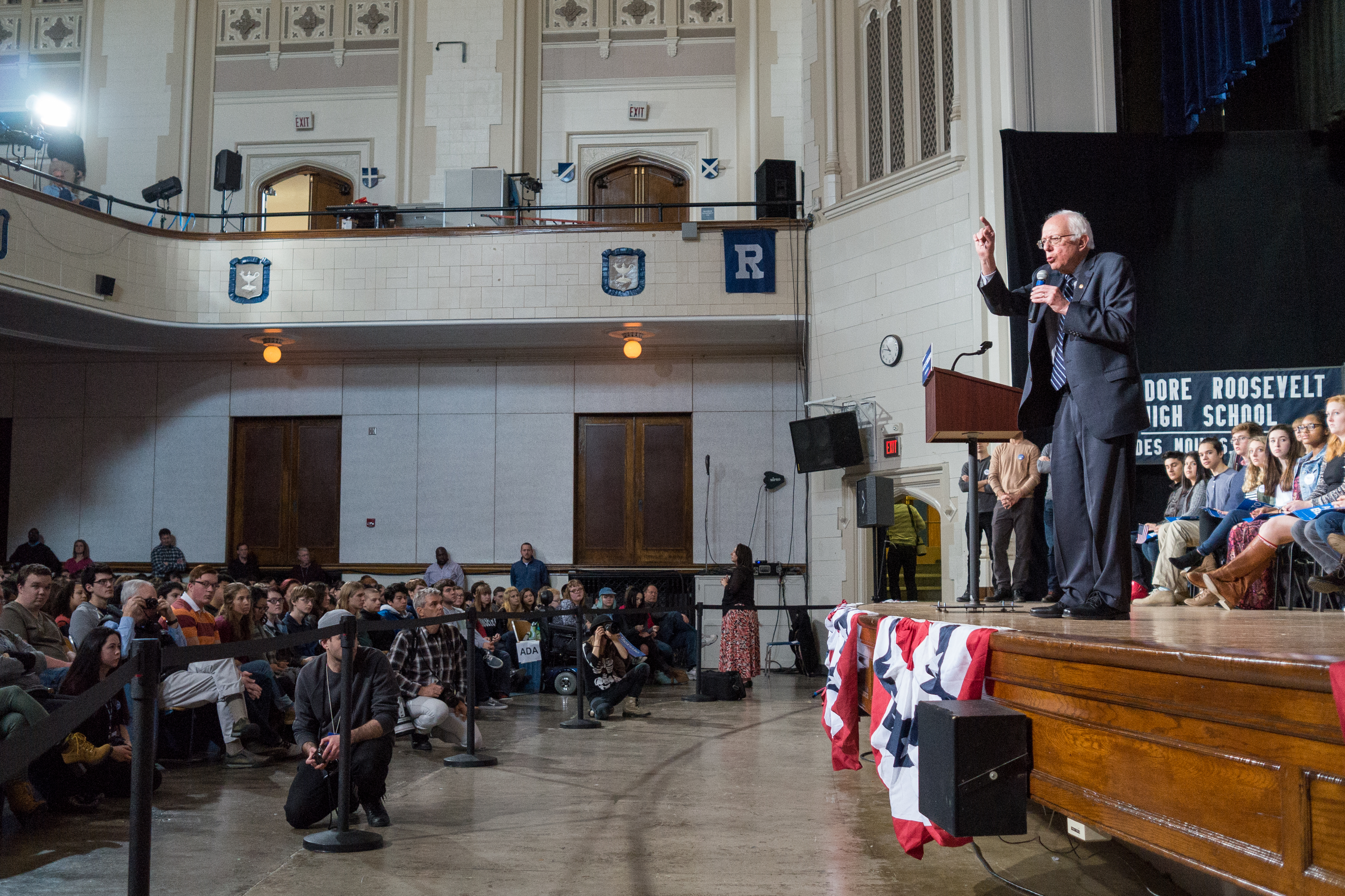 Photos taken for work of U.S. Senator and Presidential candidate Bernie Sanders speaking to a crowd of nearly 1,600 students at Roosevelt High School in Des Moines, IA on Thursday, January 28, 2016.